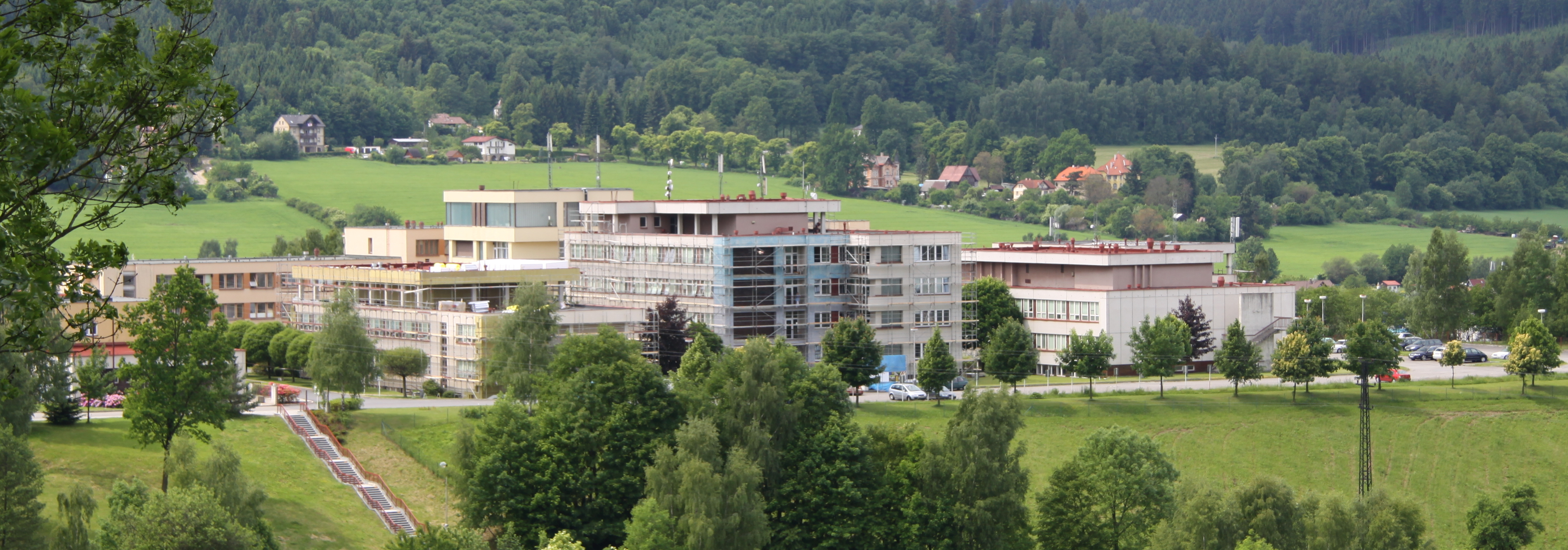 Hospital in Prachatice, Prachatice District, Czech Republic